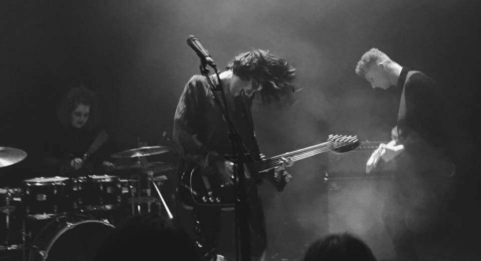 Live photo of the band